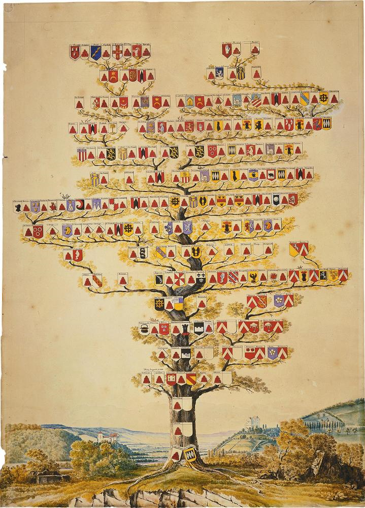 Family tree of the aristocratic Effinger family, 1816; the family tree is flanked by two castles owned by the family, Wildegg (left), and Wildenstein (right). The picture is held by the Swiss National Museum.